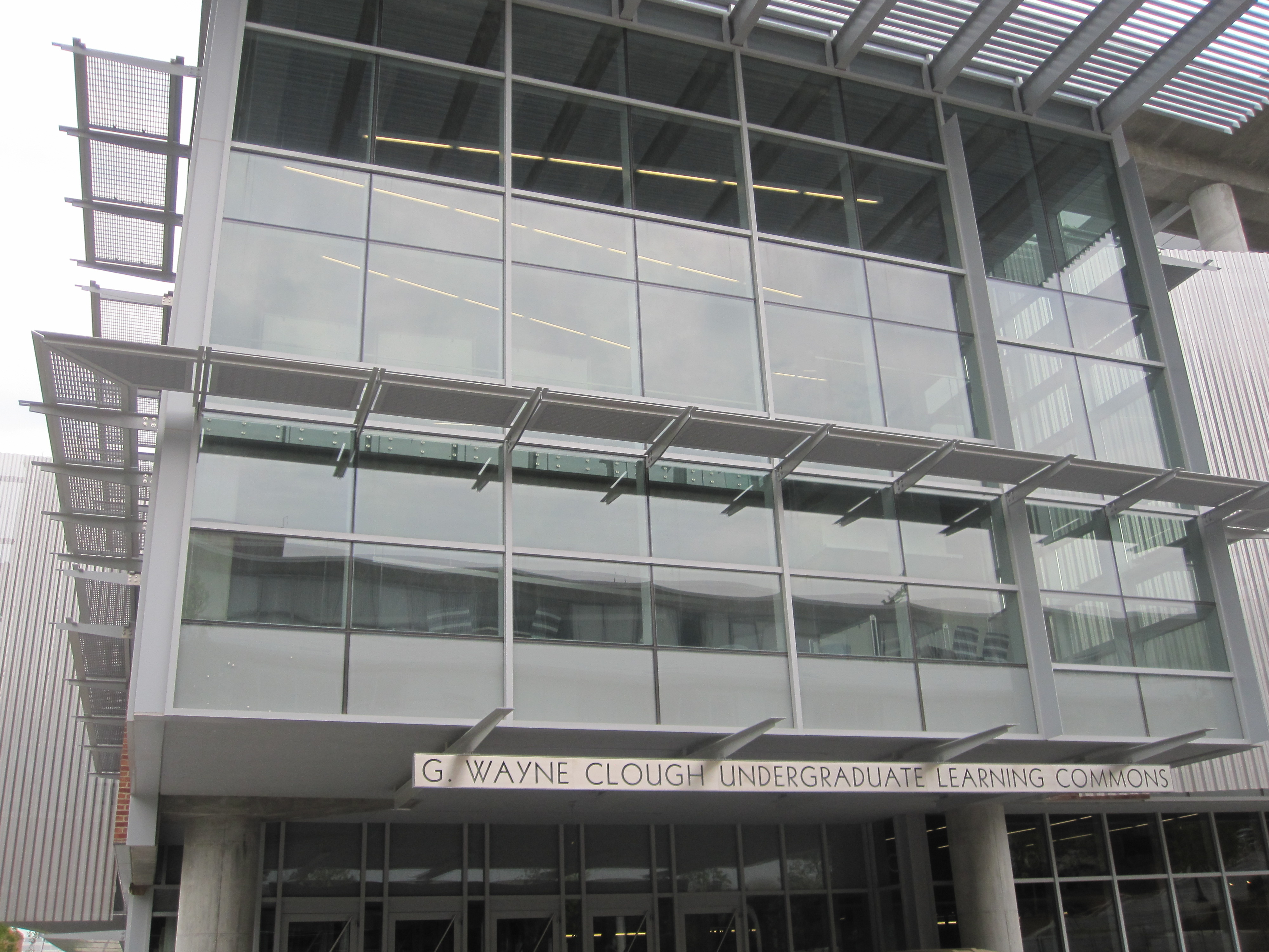 photo of the Clough Commons exterior